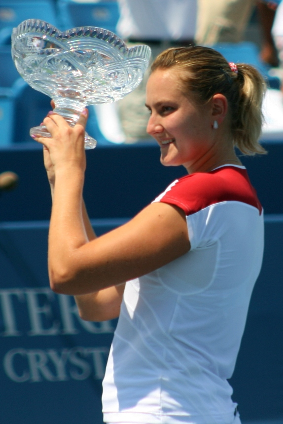 Nadia Petrova wins the 2008 WTA Cincinnati Open